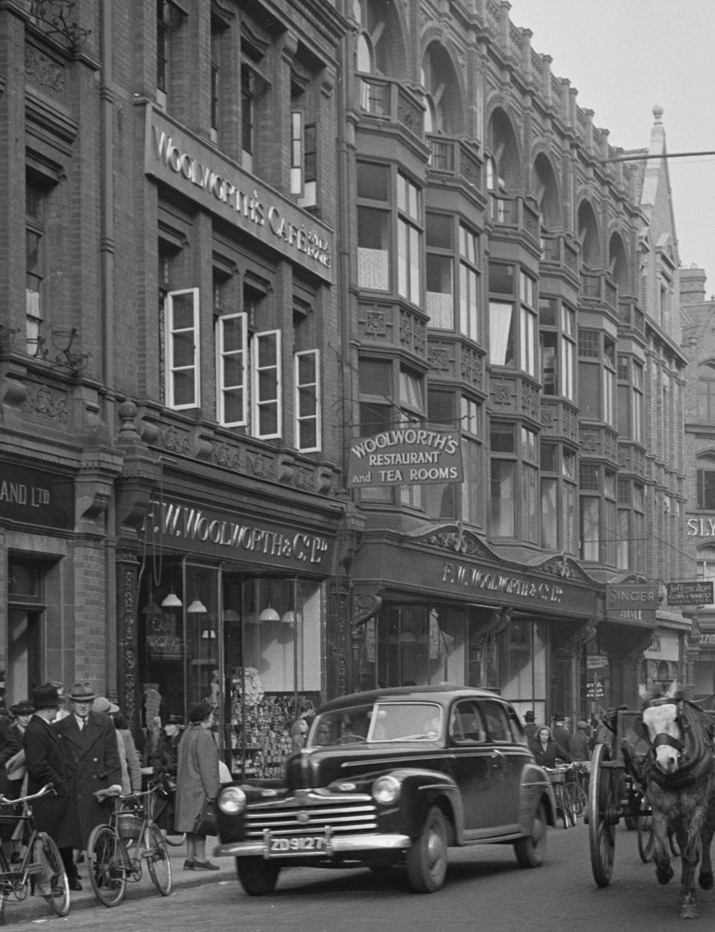 Several forms of transportation on Grafton Street, Dublin in 1946